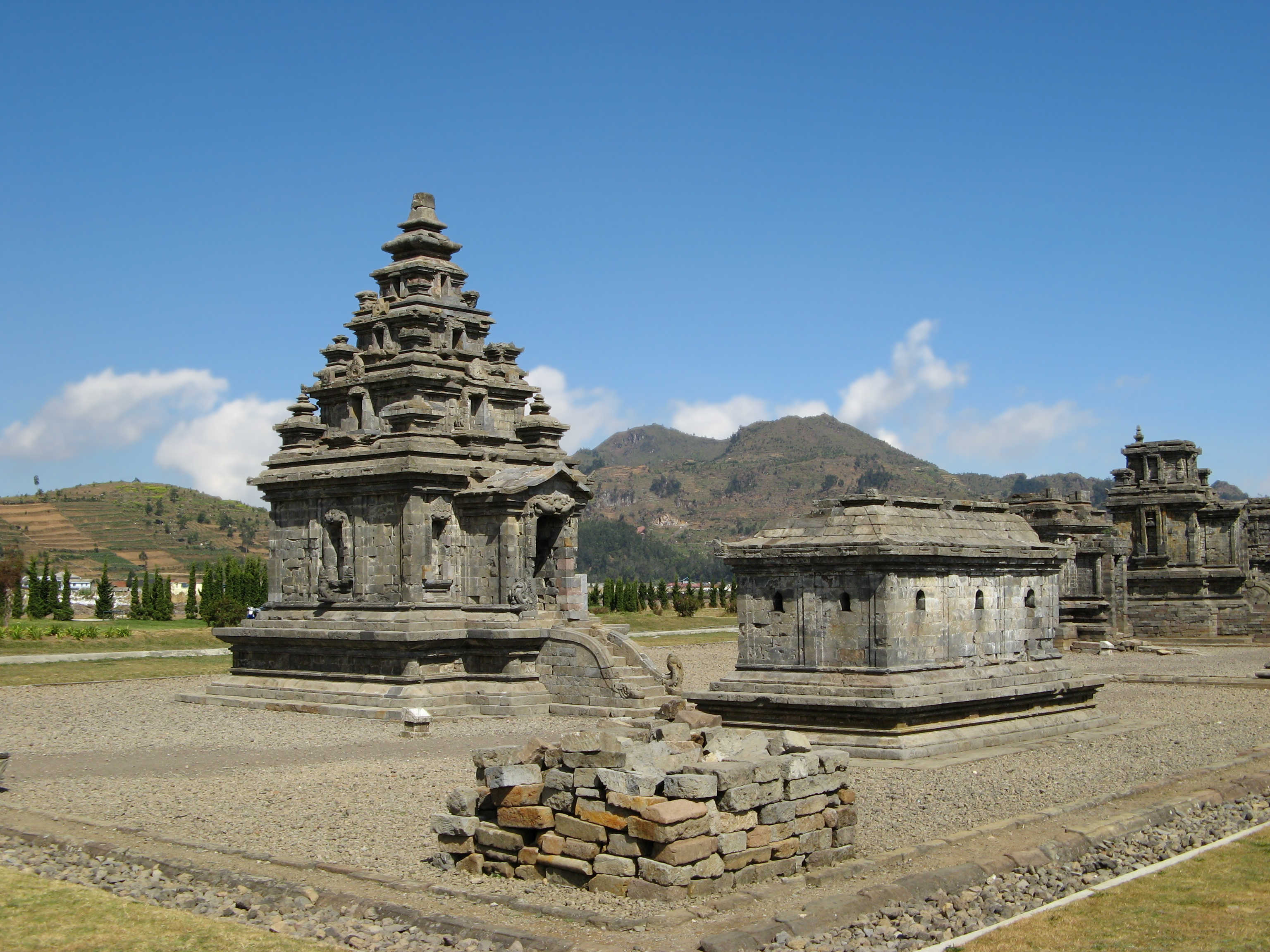 These attractive small temples are the earliest known in central Java. They date to at least the early 8th century AD, if not older; not all were built at the same time. The group is arranged in a north-south line, with their entrances facing west. C. Arjuna, photo left front, is the northernmost temple. A Shiva temple, it is faced on the west (photo right front) by its Nandi temple, C. Semar. Behind C. Semar, and barely visible in the photograph, is C. Srikandi. There follows C. Puntadeva, photo extreme right, and finally C. Sembadra (not visible in this photo).